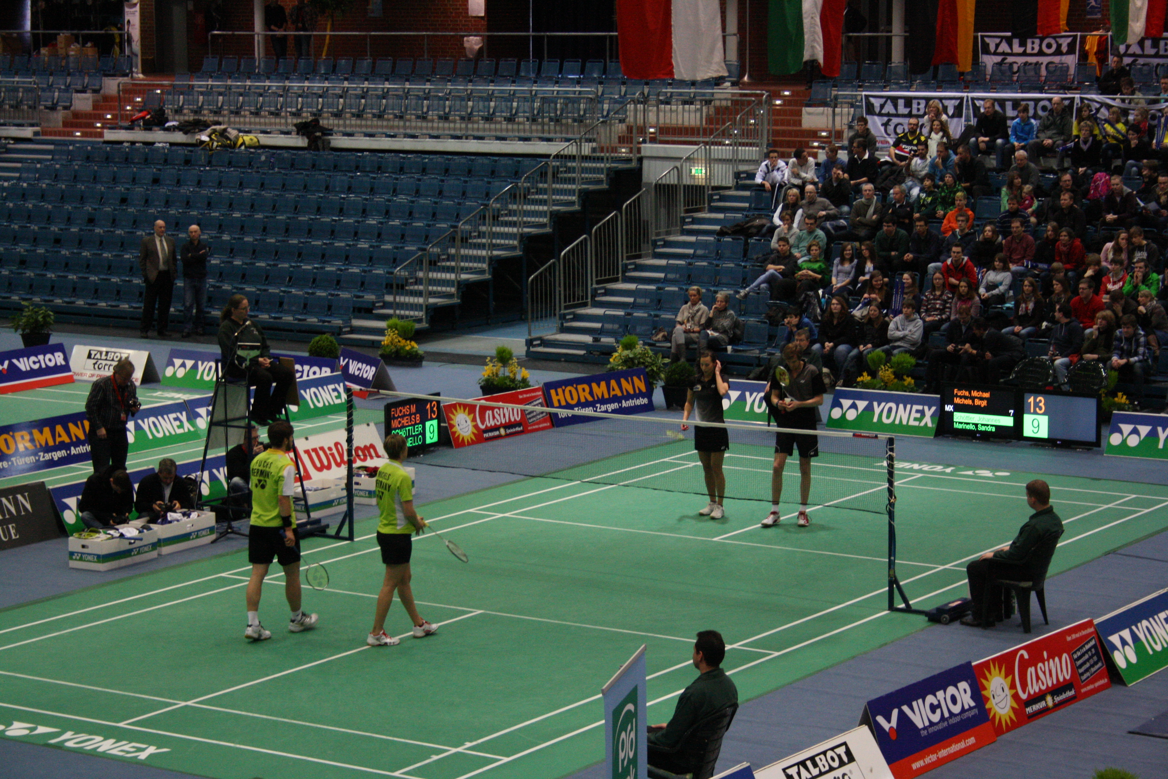 Mixed Final of the 2012 German National Badminton Championships.